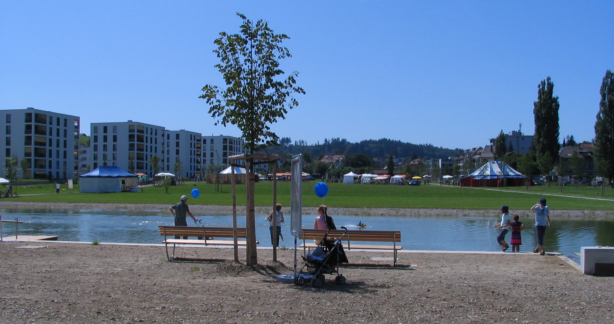 Liebefeldpark: Opening of the park on the 15.08.2009. In Liebefeld, Köniz, Switzerland